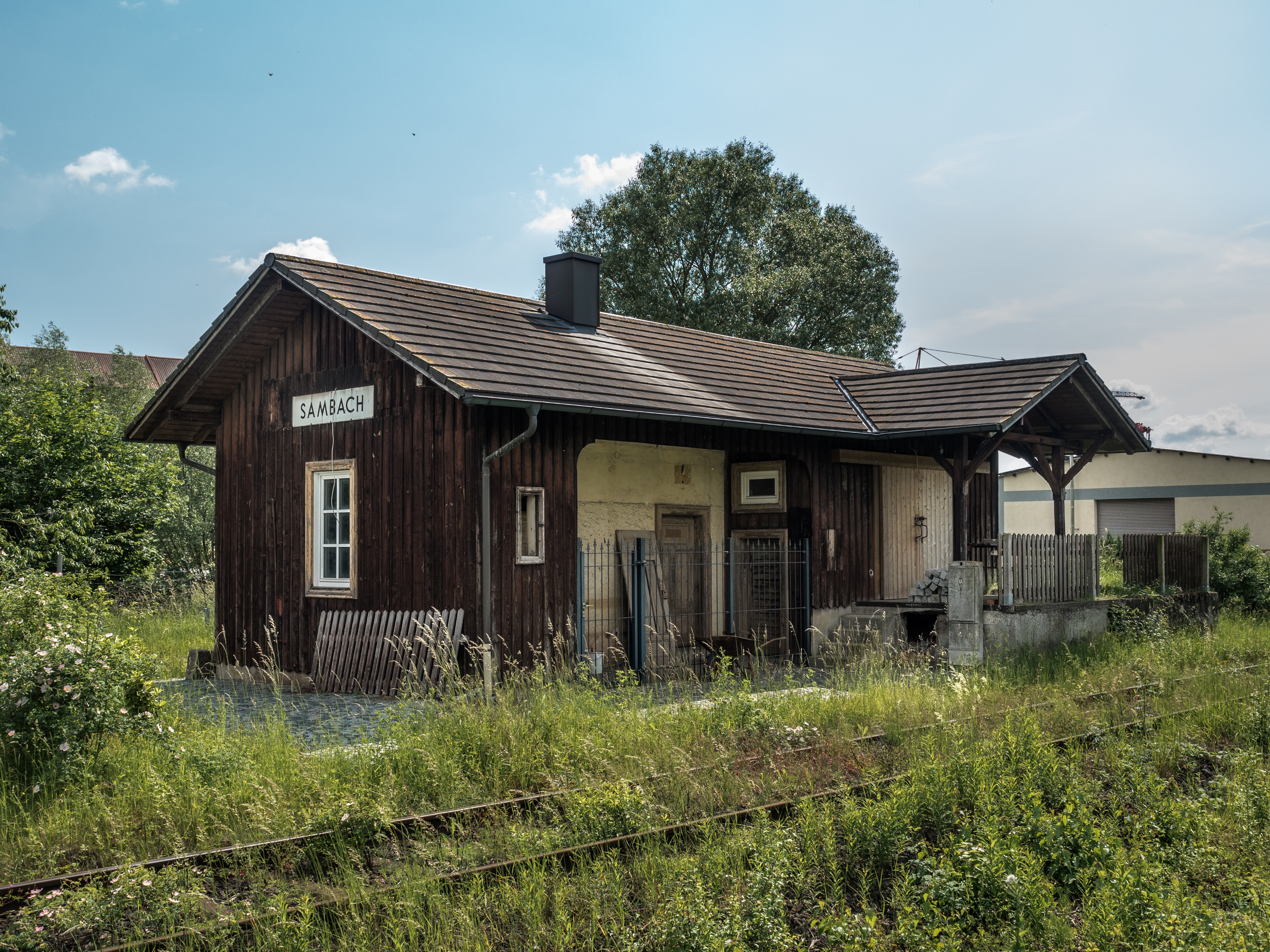 Former railway station Sambach near Pommersfelden